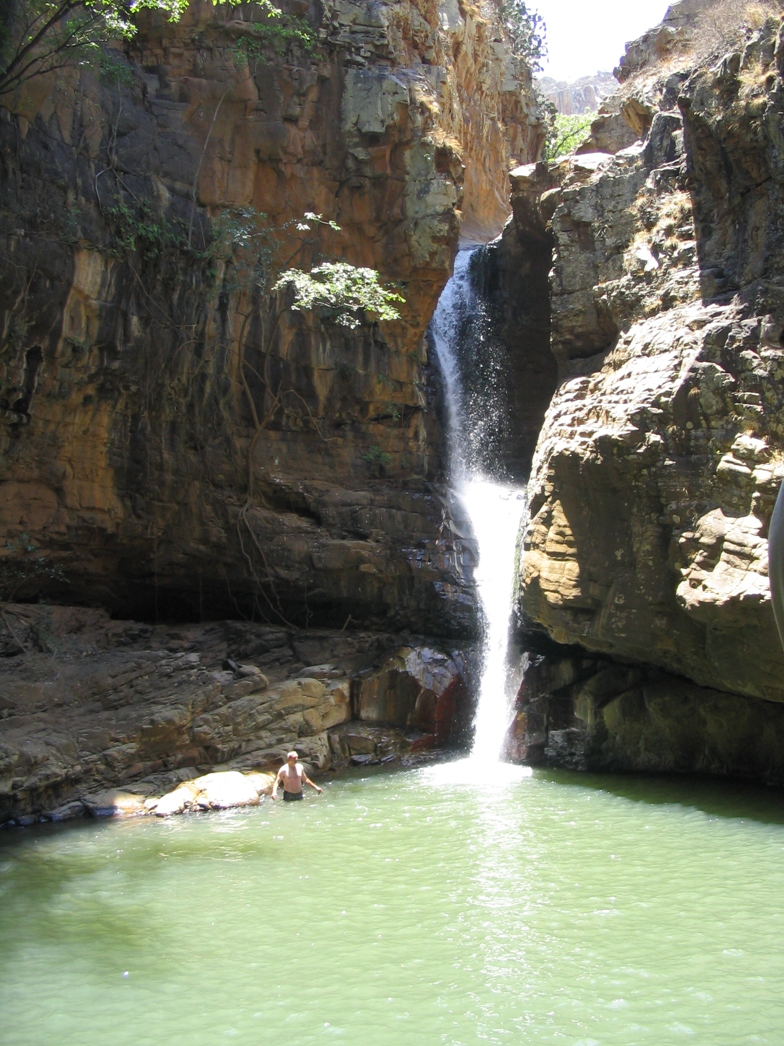 The "Magyar" falls in Angola (Africa). It is named after the Hungarian explorer, László Magyar.